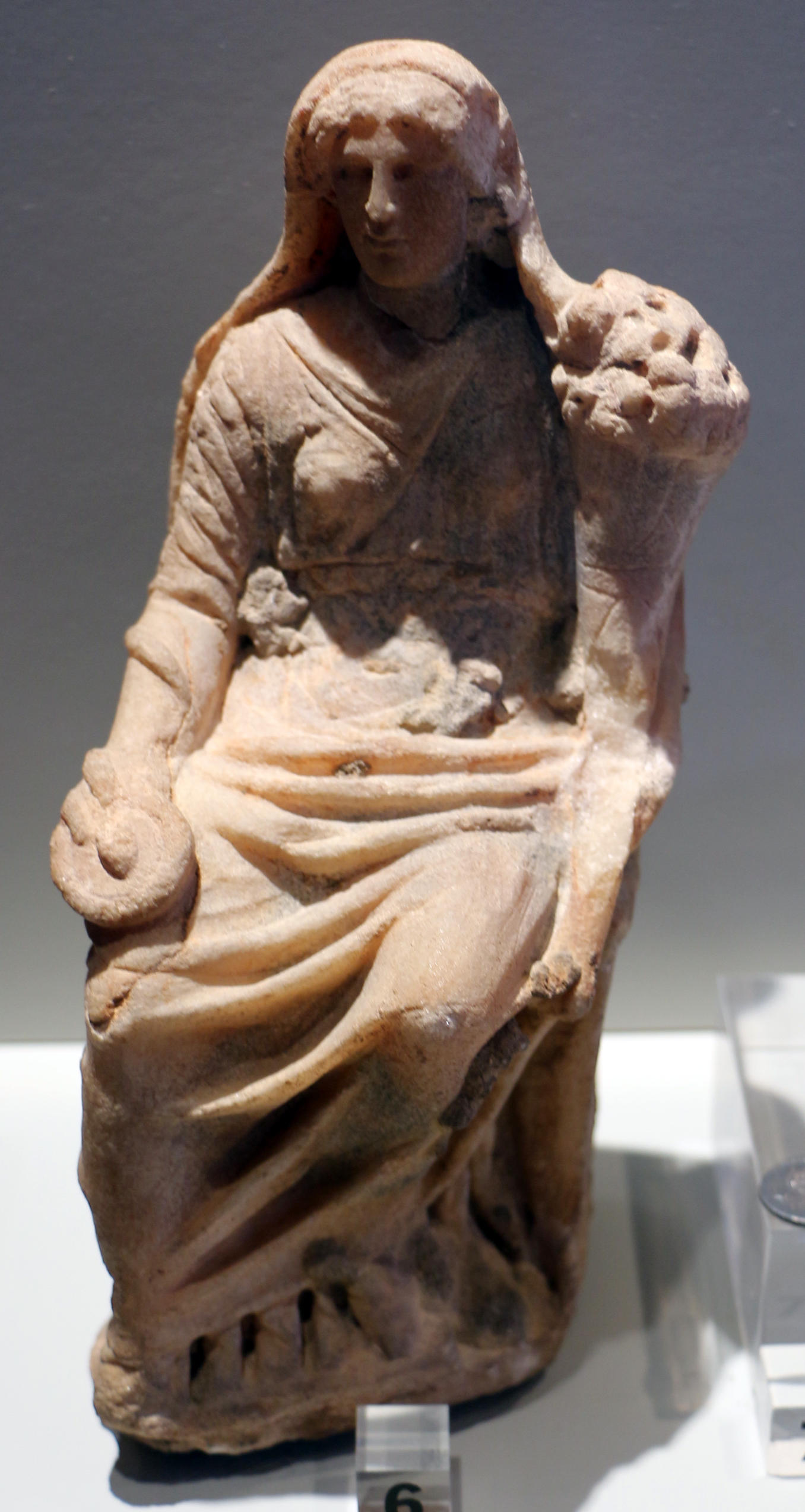 Roman antiquities in Museo Barracco (Rome)